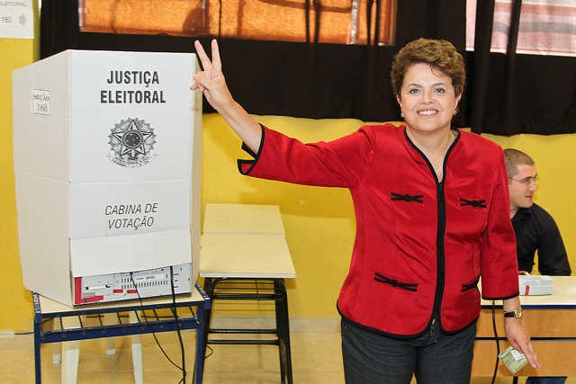 Dilma Rousseff votes in the 2010 presidential election runoff in Porto Alegre.